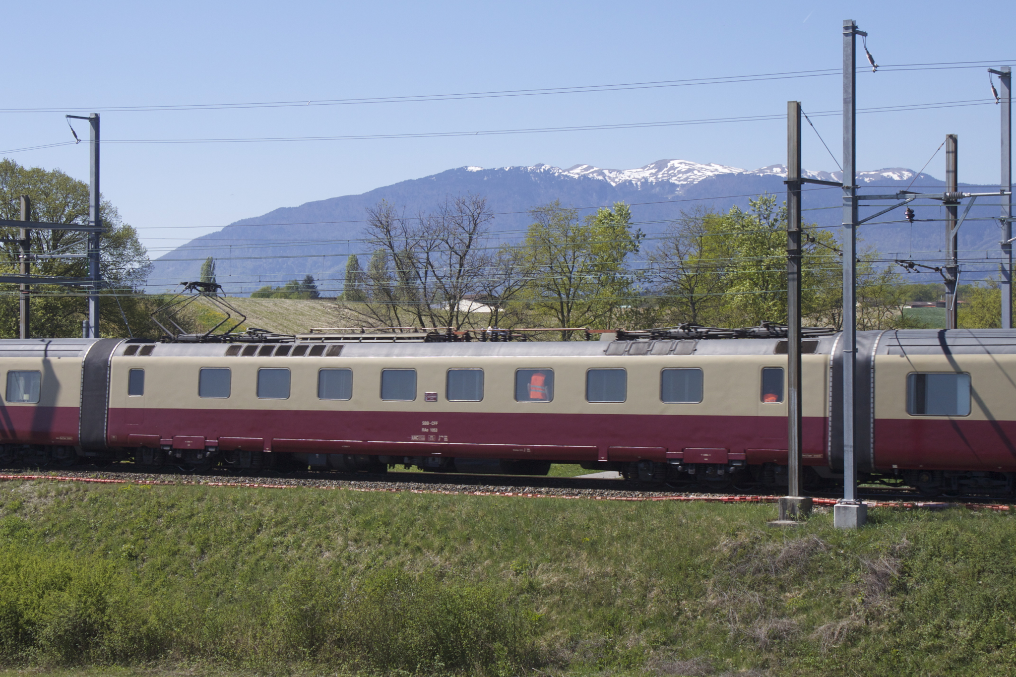 Engine carriage of SBB CFF FFS RAe TEE II 1053 at Satigny on the Geneva to La Plaine railway (then electrified with 1500 V DC).